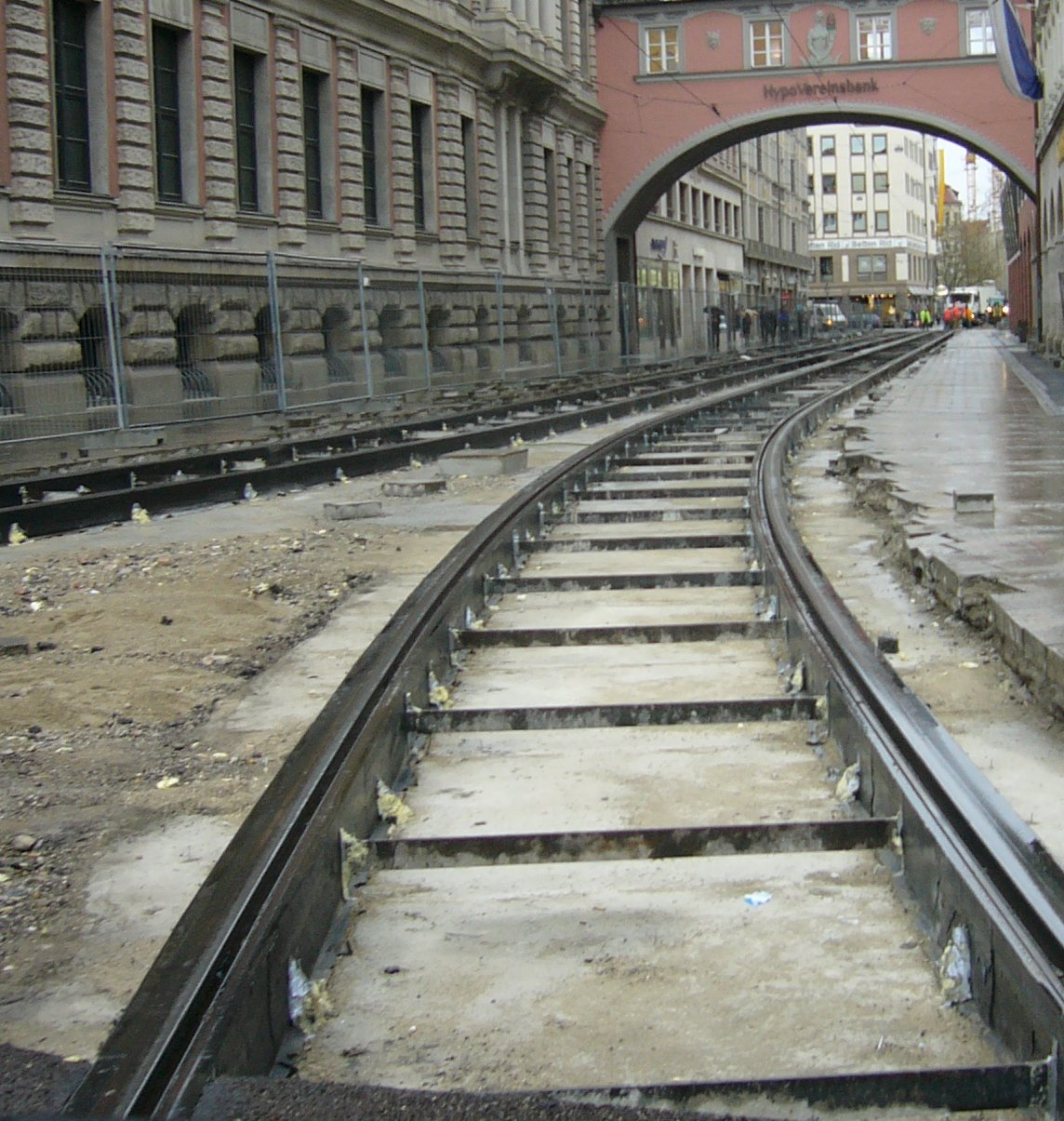 Rail tracks of a street car (construction)